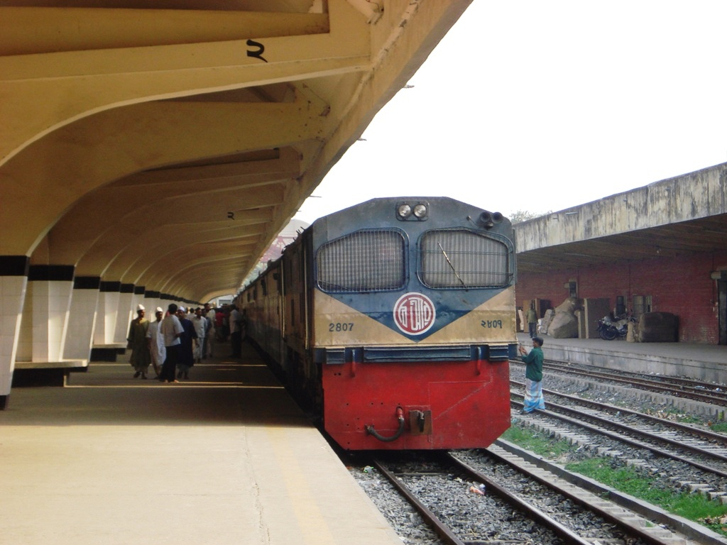 DLW made YDM 4 metre gauge locomotive of Bangladesh Railway waiting at Kamlapur Railway Station with Jamuna Express